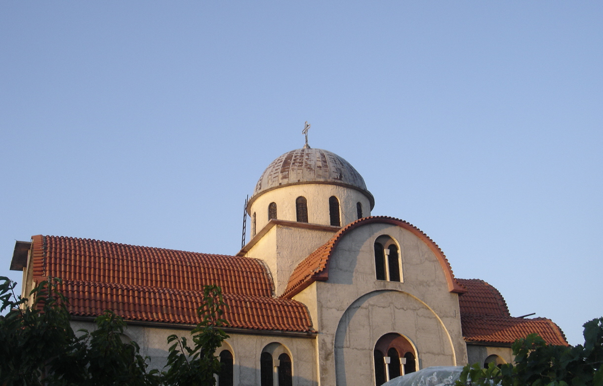 The Axion Esti Monasteri, near Methoni, Pieria.